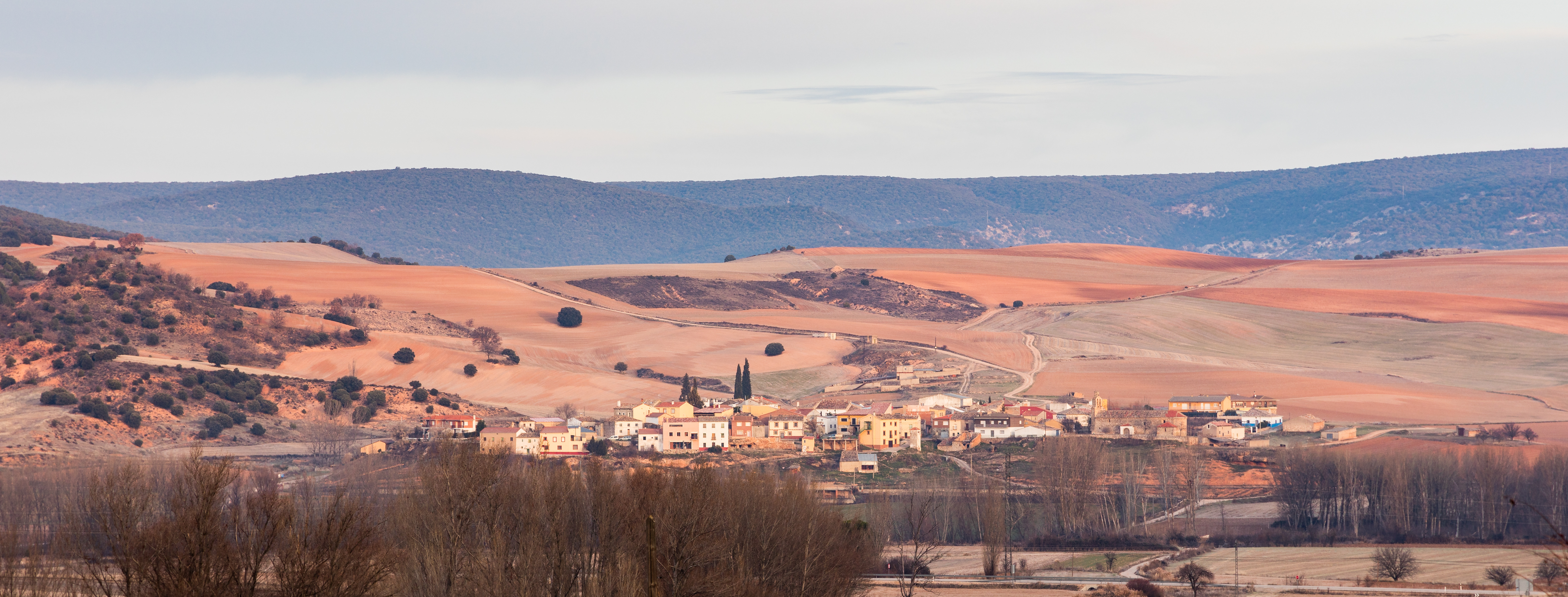 Villaseca de Henares, Guadalajara, Spain